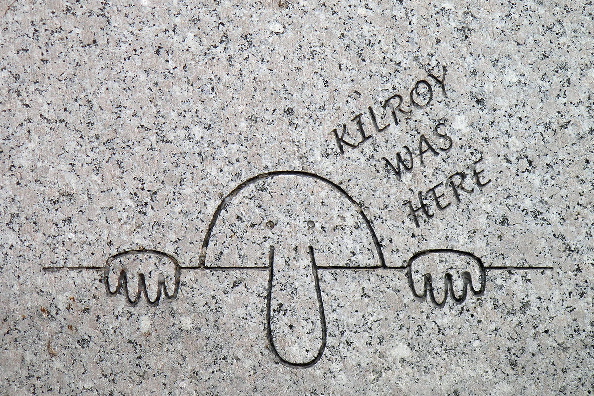 Engraving of Kilroy on the WWII Memorial. Wanna know more about this phrase? Check here.